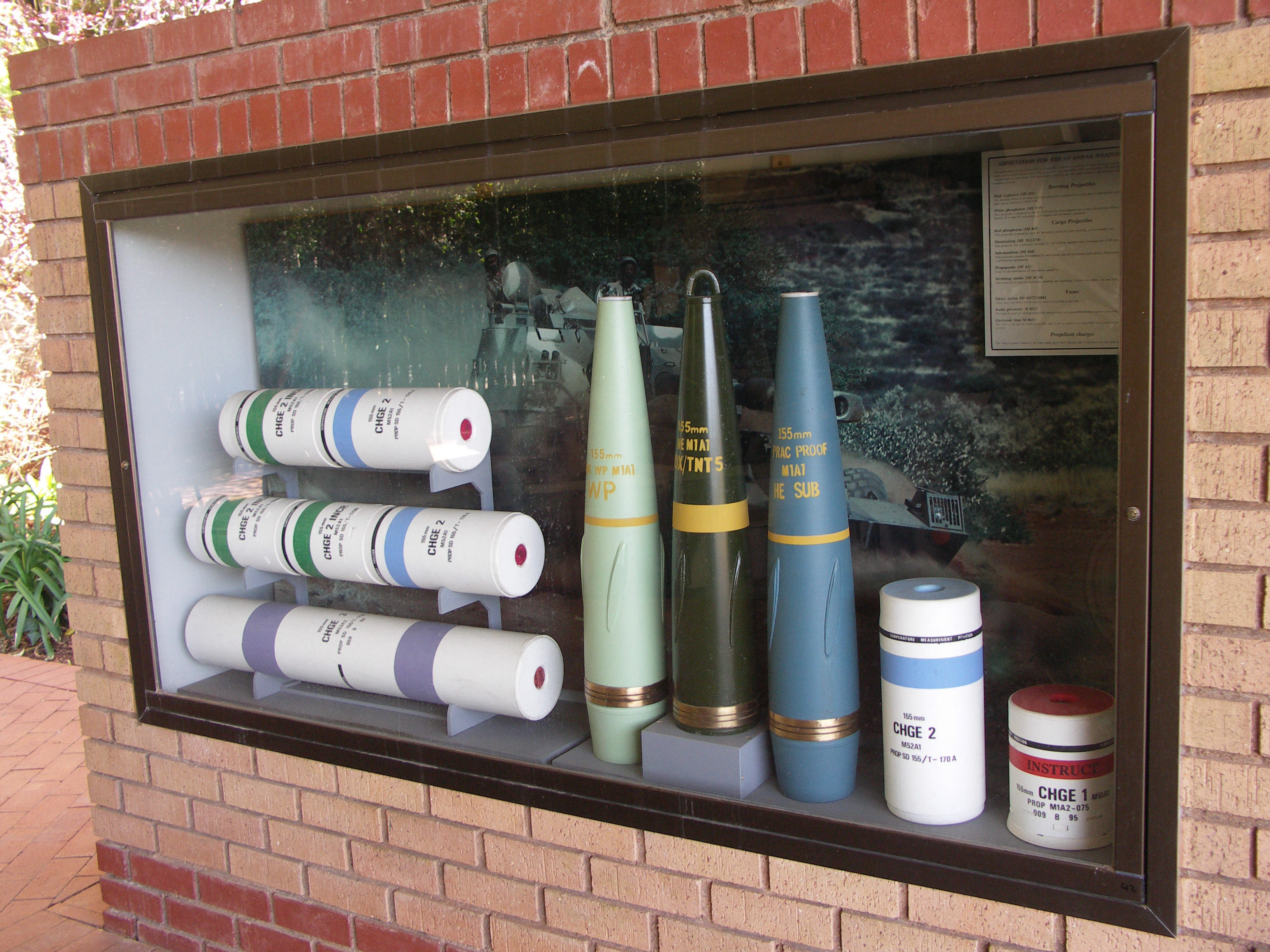 Shells and charges for the G5/G6 howitzers at the South African National Museum of Military History, Johannesburg